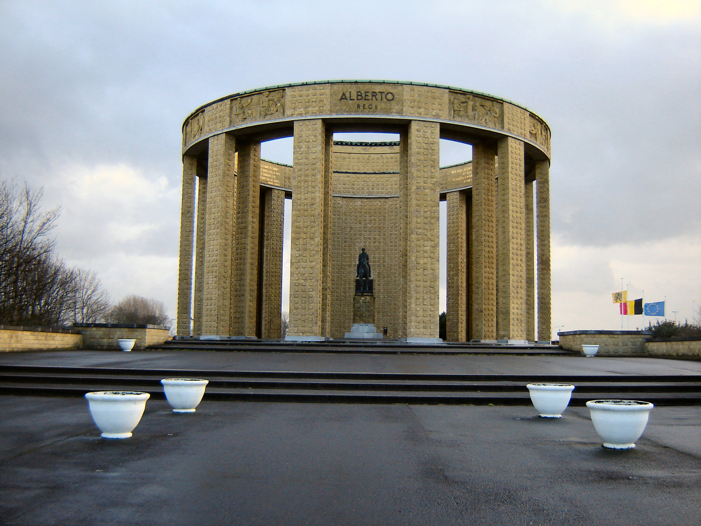 Albert I Monument in Nieuwpoort, West Flanders, Belgium